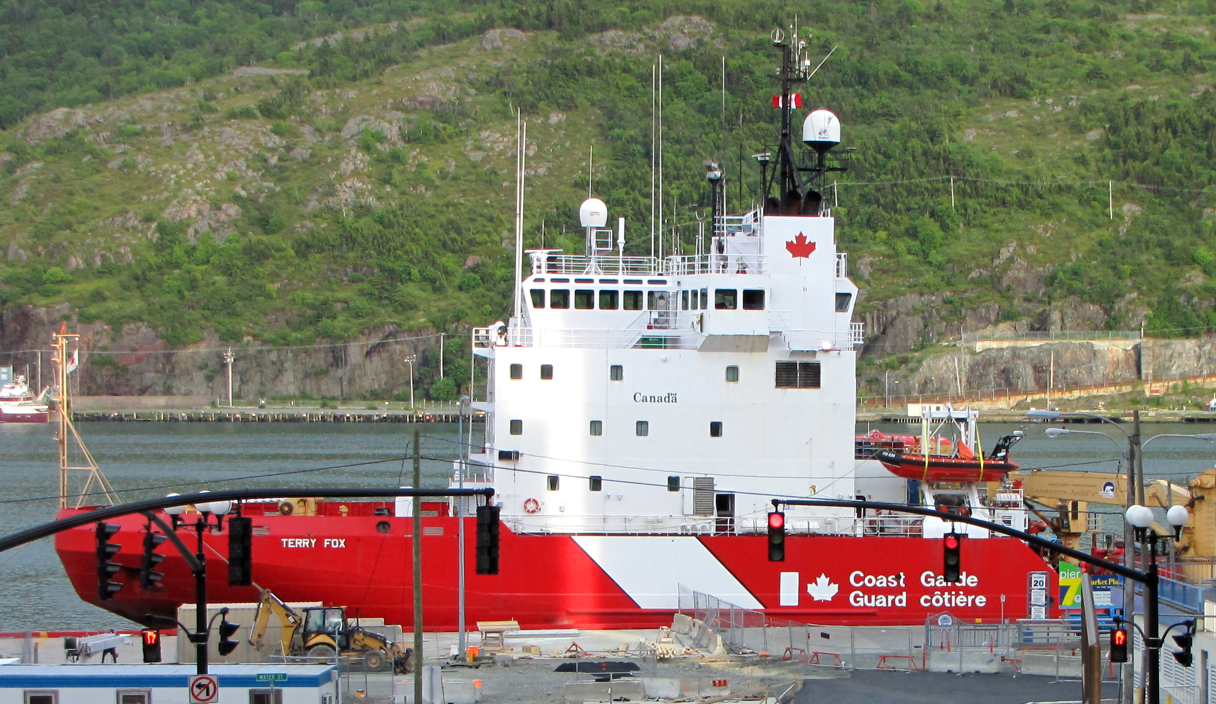 CCGS Terry Fox, Heavy Icebreaker, St. John's Harbour, Newfoundland and Labrador